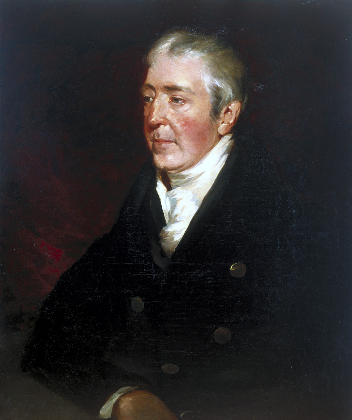 Ann Gibson Bennett, ; Alexander Nasmyth (1758-1840); Science Museum, London ; Guess 1835